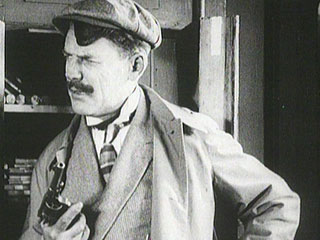 Screen shot from the 1926 silent movie Benya Krik. Director Vladimir Bertoldovitch Vilner (1885-1952). License qualifies as "non-amateur cinema" first shown before 1938